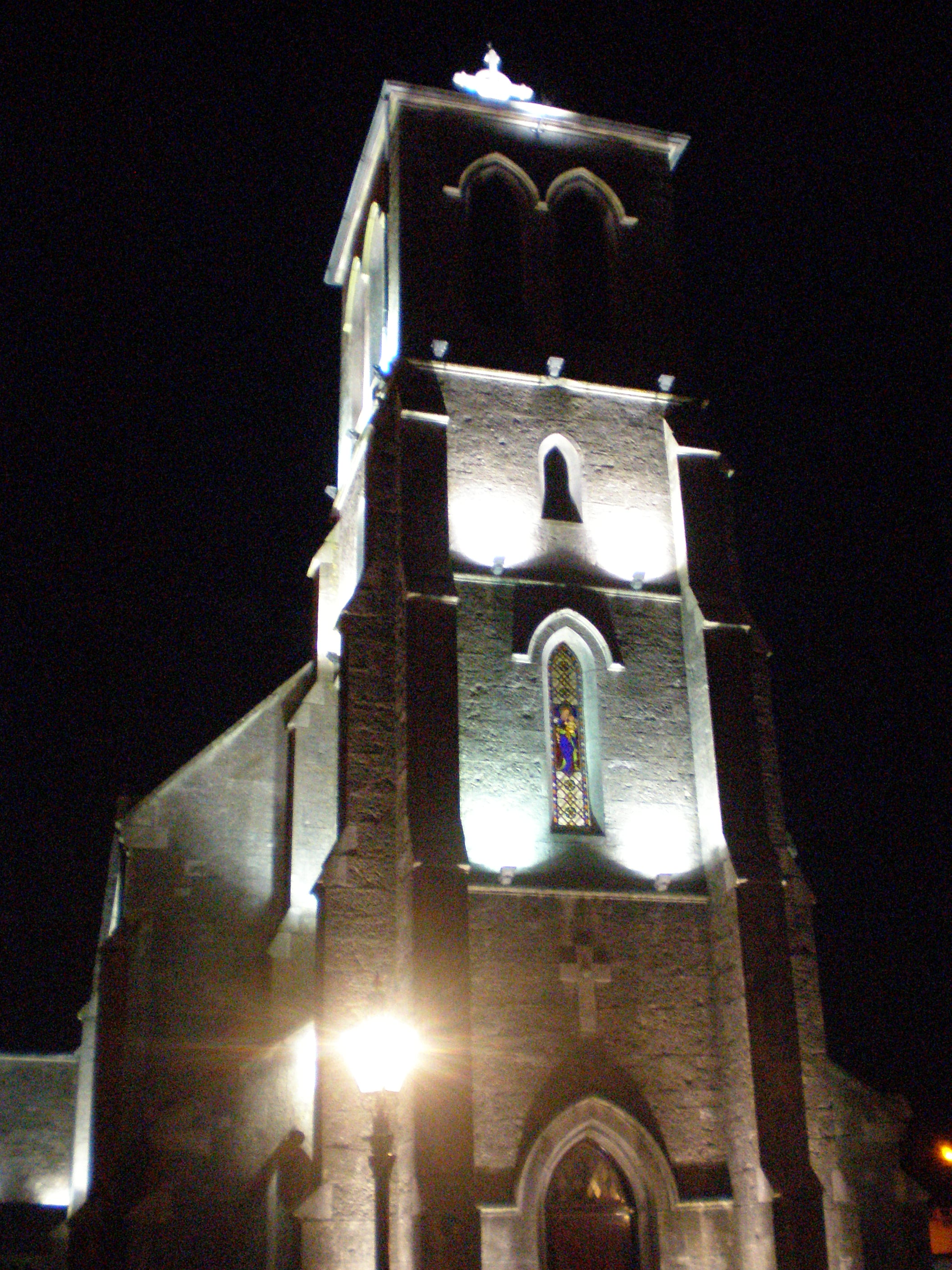 A photograph of St Conleth's Parish Church, Newbridge, County Kildare, Ireland, taken by myself. As per COM:CRT/Ireland#Freedom of panorama buildings in public places can be photographed and these images used in any way. In this spirit I release all copyright on this photograph.